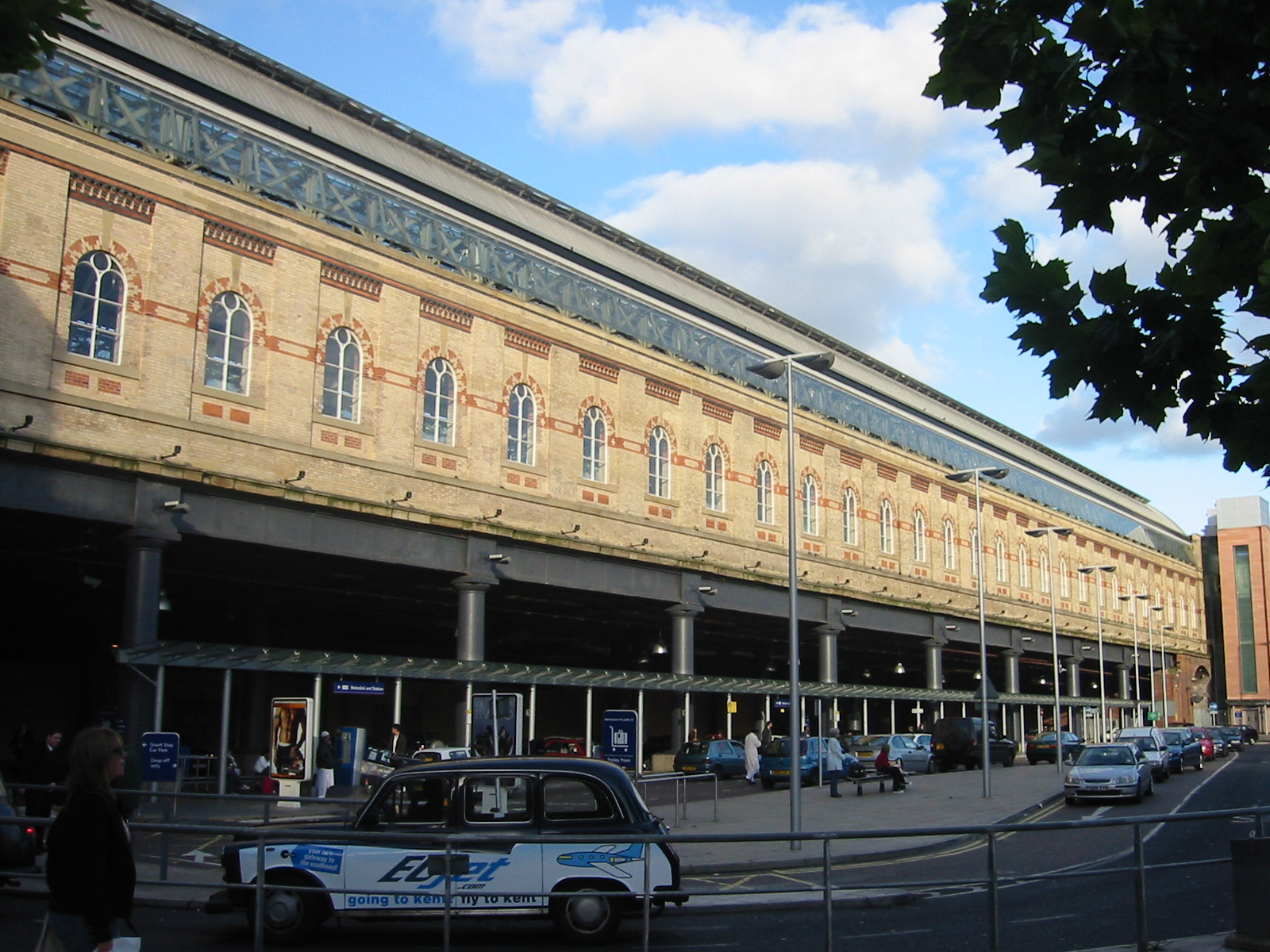 Manchester Piccadilly station Photograph by Lmno on 24 September 2004 Category:Images of Manchester